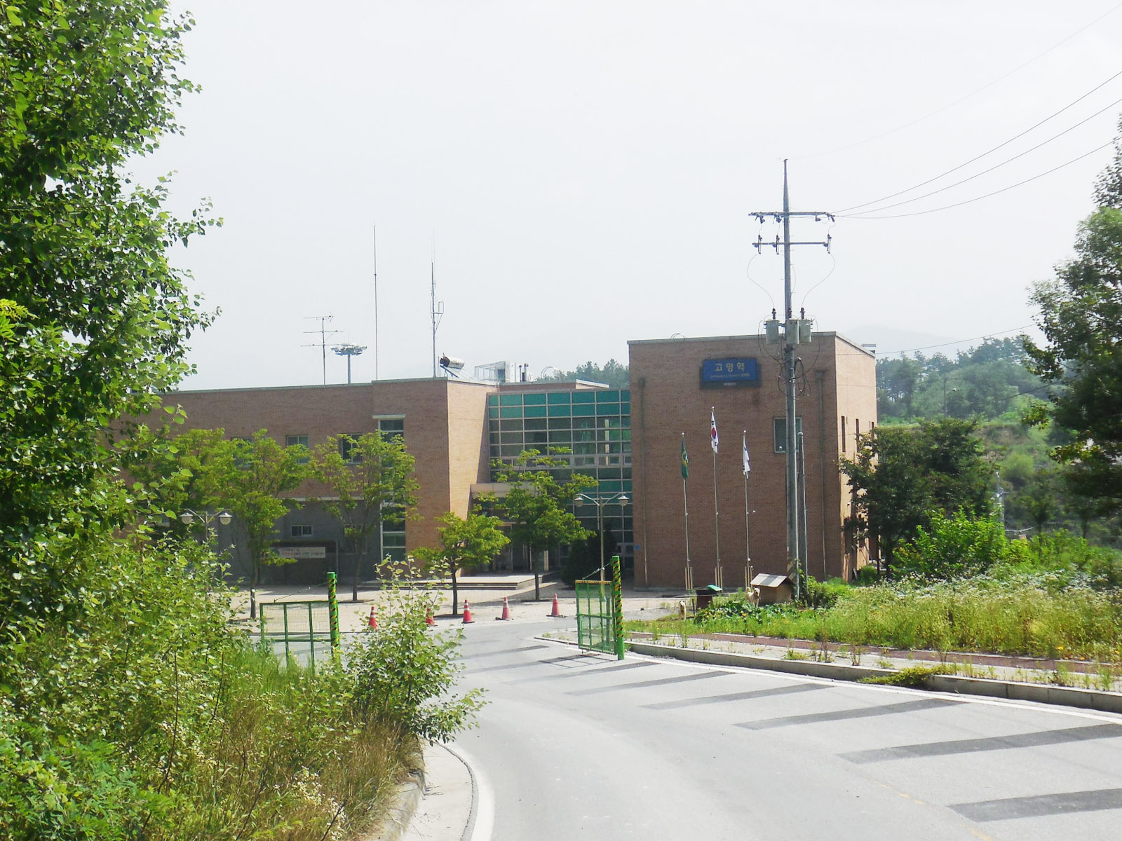 Korail Jungang Line Gomyeong Station.